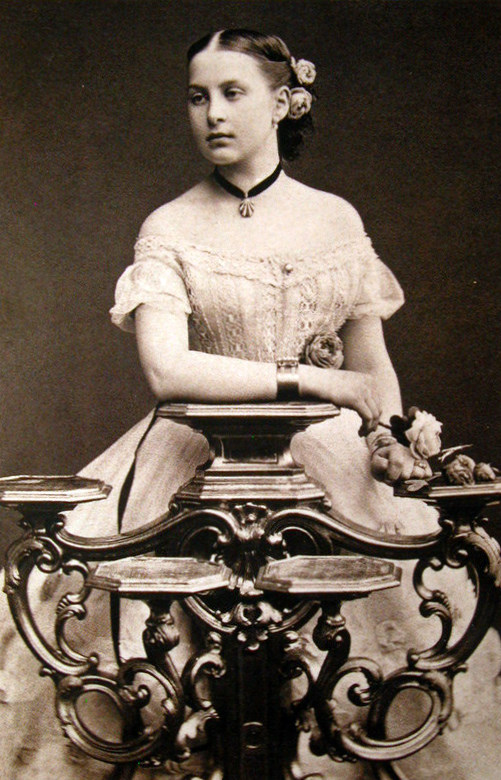 Grand Duchess Olga Constantinovna of Russia (future Queen of the Hellenes)